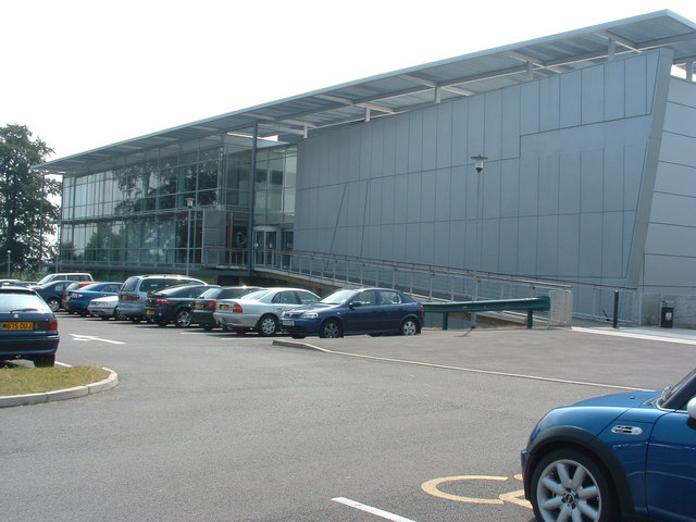 Network Management Centre. BT has several management centres around the country, which monitor the state of the network, this being the flagship building near Oswestry.